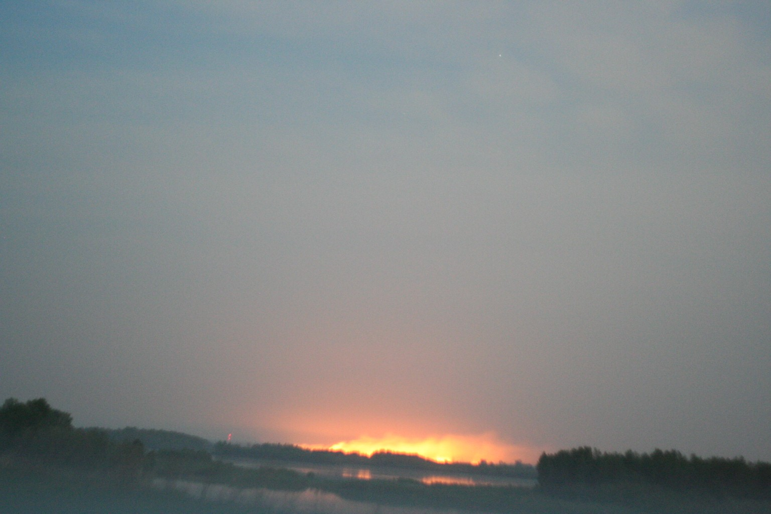 Wildefire in Altaiskiy kray